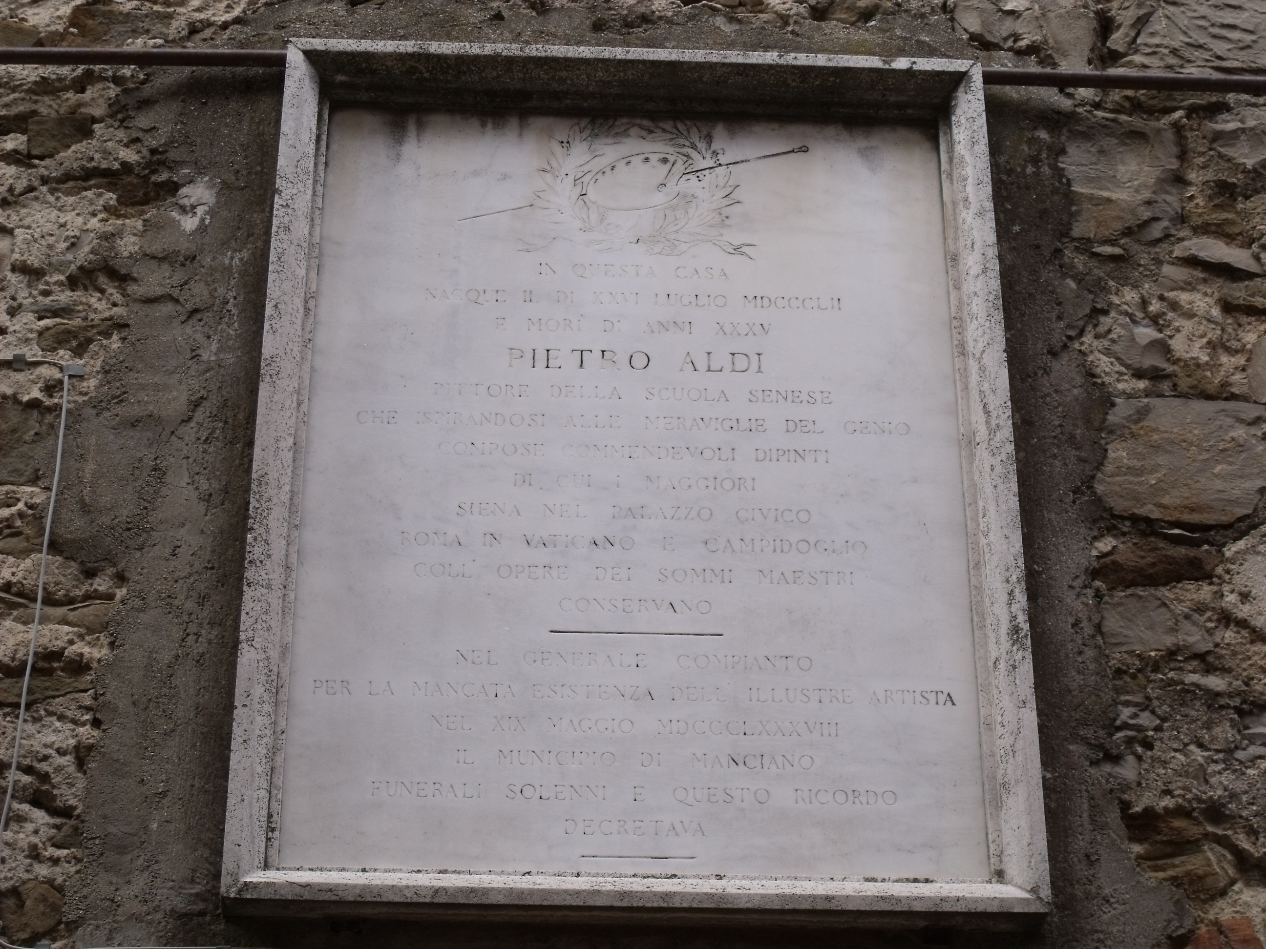 Sign on the house of birth of Pietro Aldi in Manciano, Maremma, Province of Grosseto, Tuscany, Italy